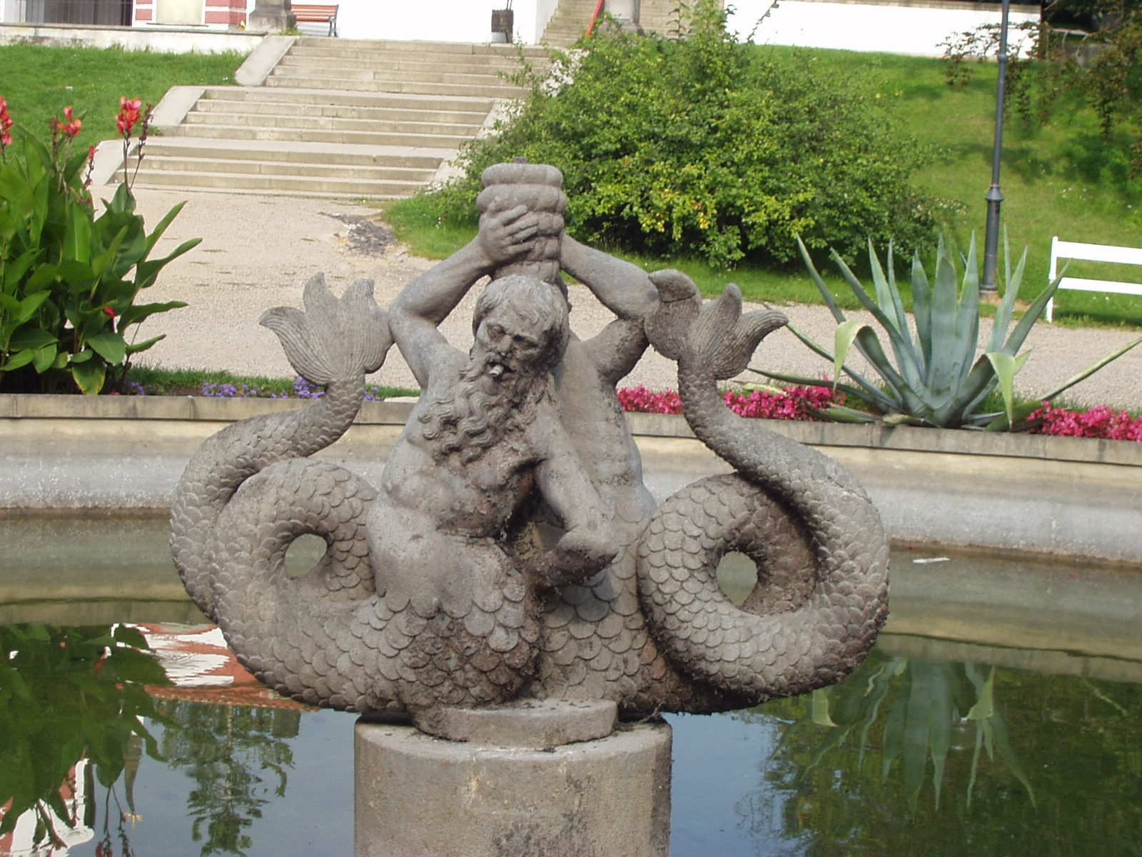 A statue of Triton in Klasterec nad Ohri castle park. Author Johann Brokoff (1685).